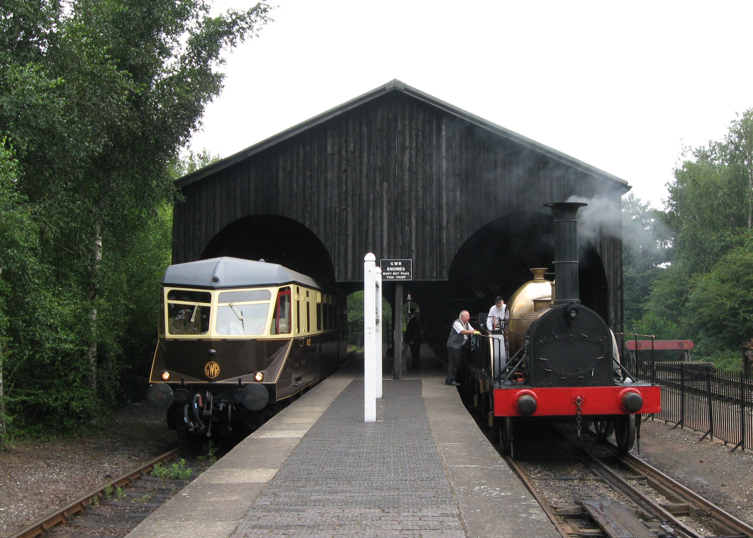 GWR No.22 AEC Diesel Railcar with Firefy Broad Guage Steam Loco Replica at Didcot Great Western Railway Centre